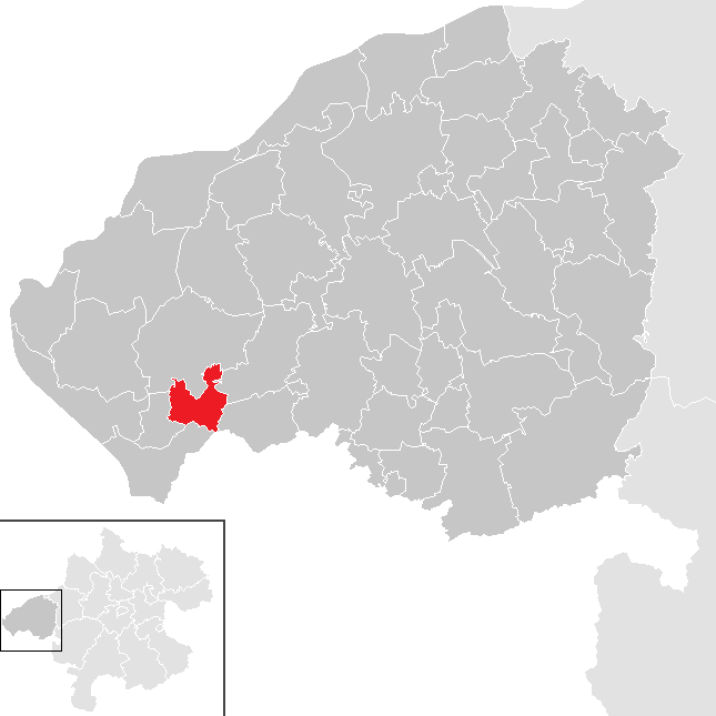 district Braunau am Inn